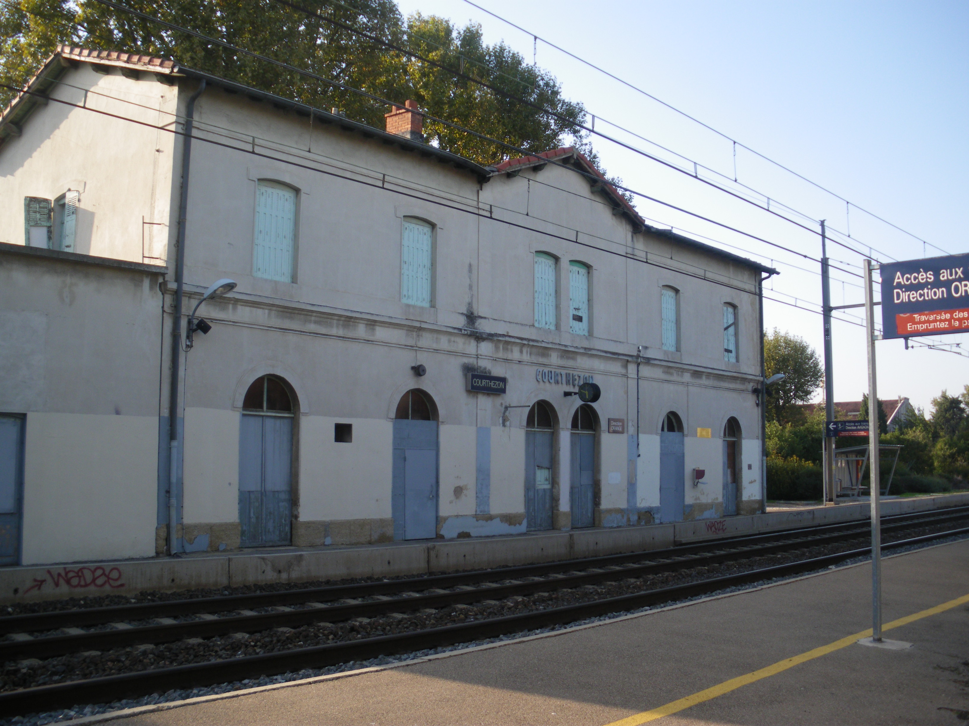 Train Station in Courthézon, Vaucluse, France